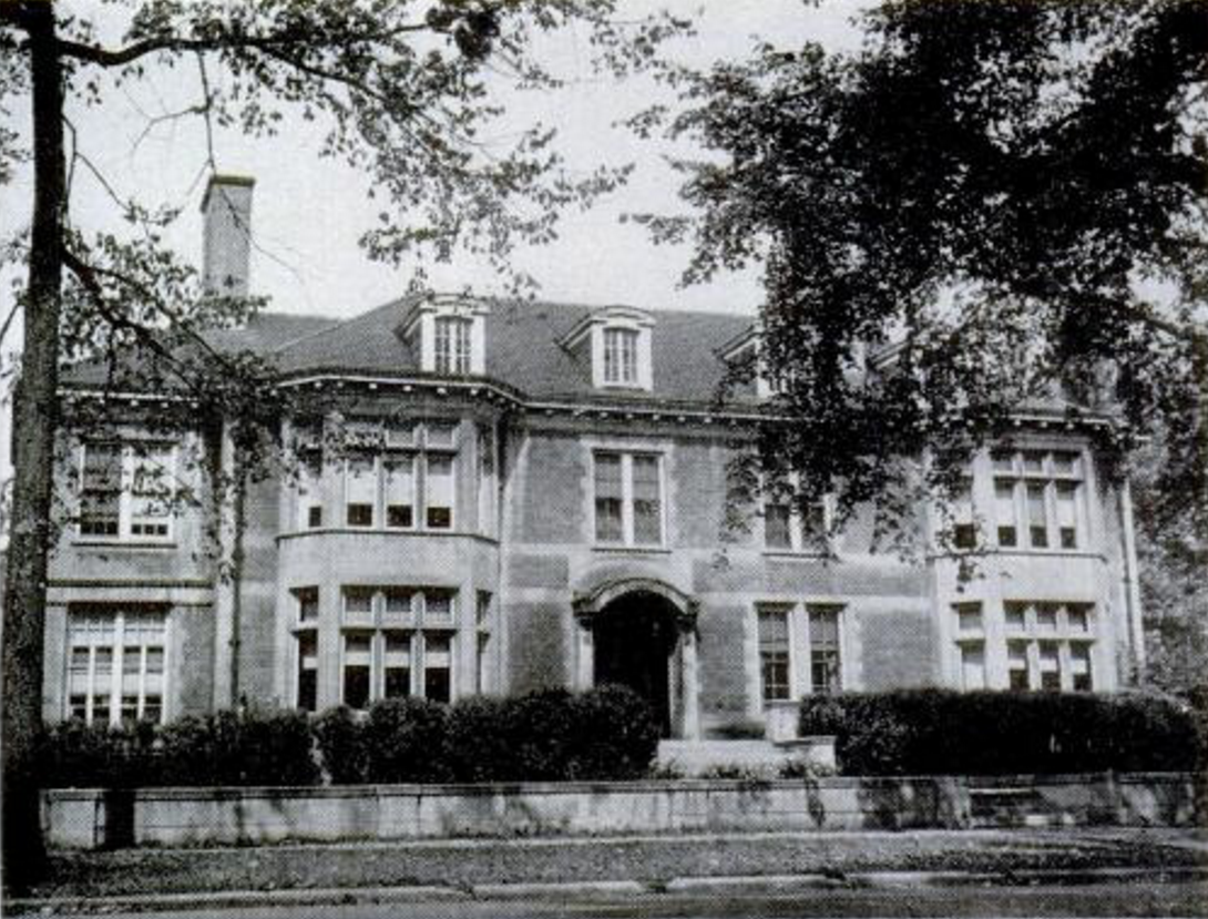 Prophet Francis Marion Jones' "French Castle" in Novemeber 1944